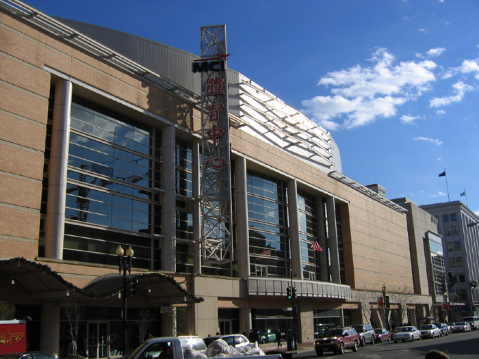 Digital photo of the MCI Center in Washington, DC, taken by User:Postdlf, 12-13-04.